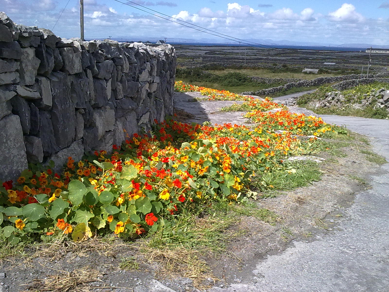 Caputxina - Tropaeolum majus - Inis Meáin